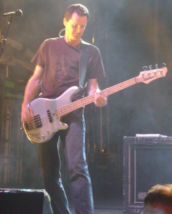 Greg Kriesel Live @ Charlotte, NC 20-09-2008